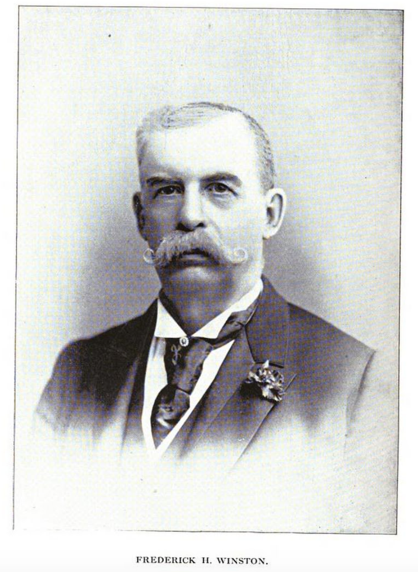 A lithograph of Frederick Winston, American Minister to Persia